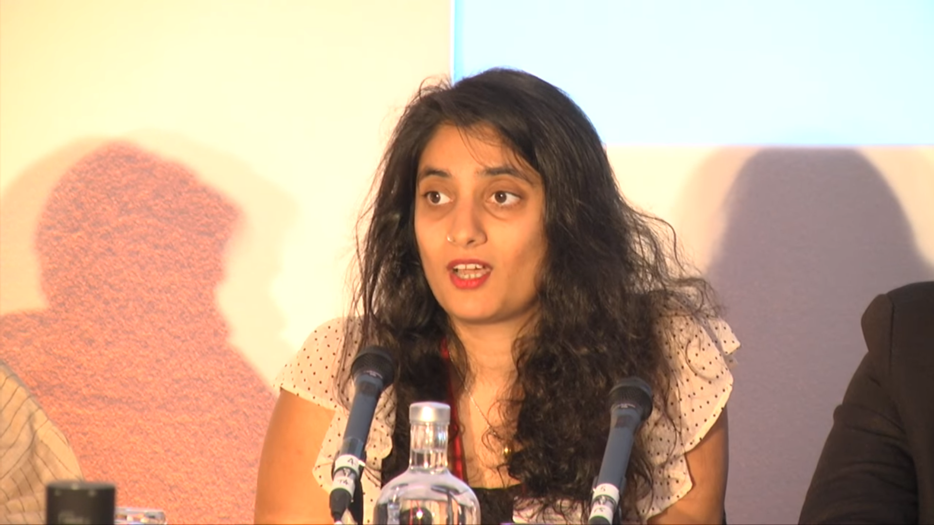 Sadia Hameed on Islam's Non-Believers Panel Discussion at the International Conference on Free Expression and Conscience, London, 22-24 July 2017 (#IWant2BFree).